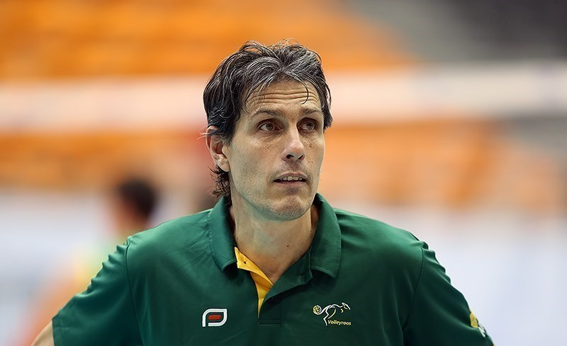 Iran vs Australia friendly volleyball match (May 2014)